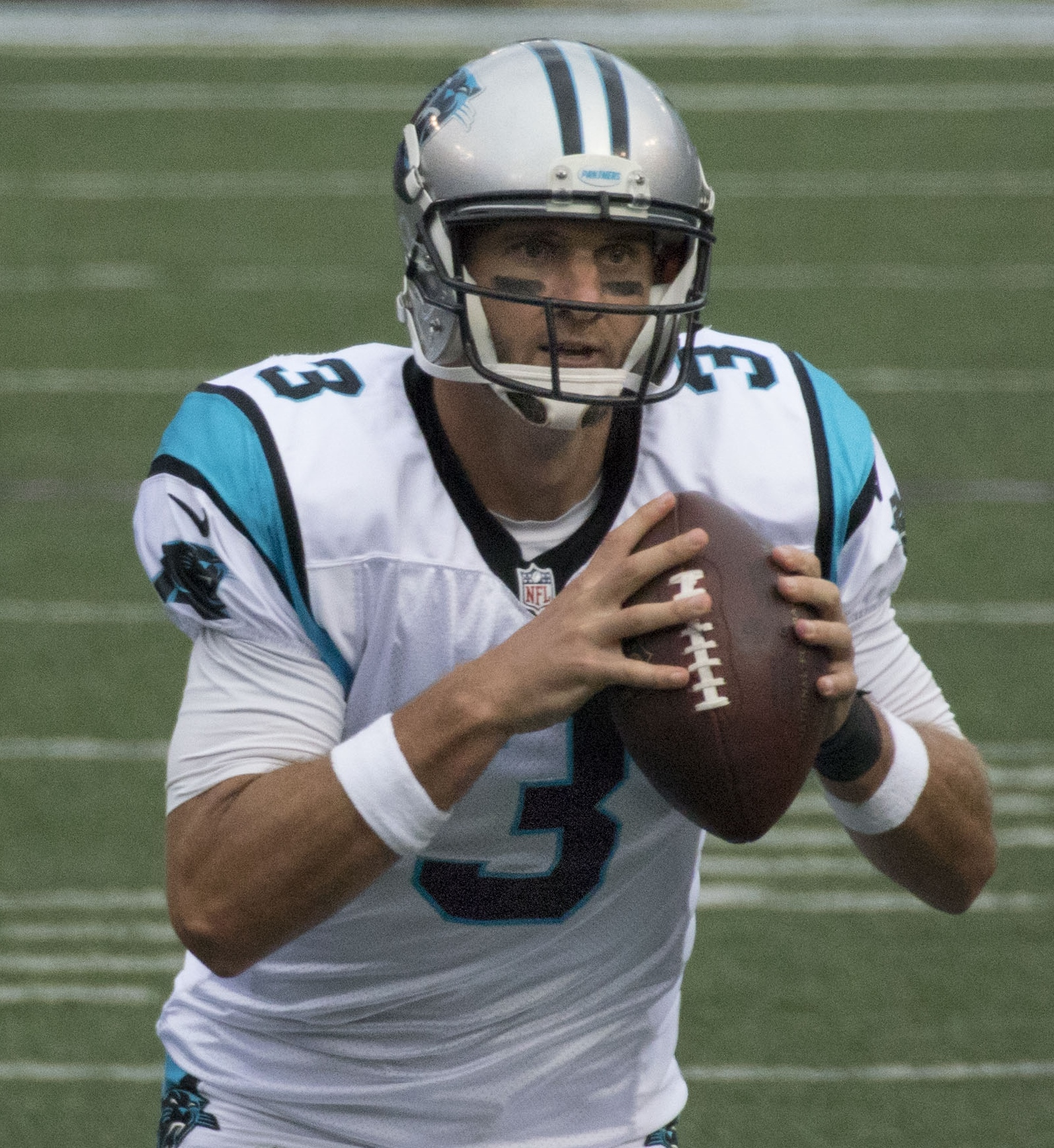 Panthers at Ravens 9/28/14